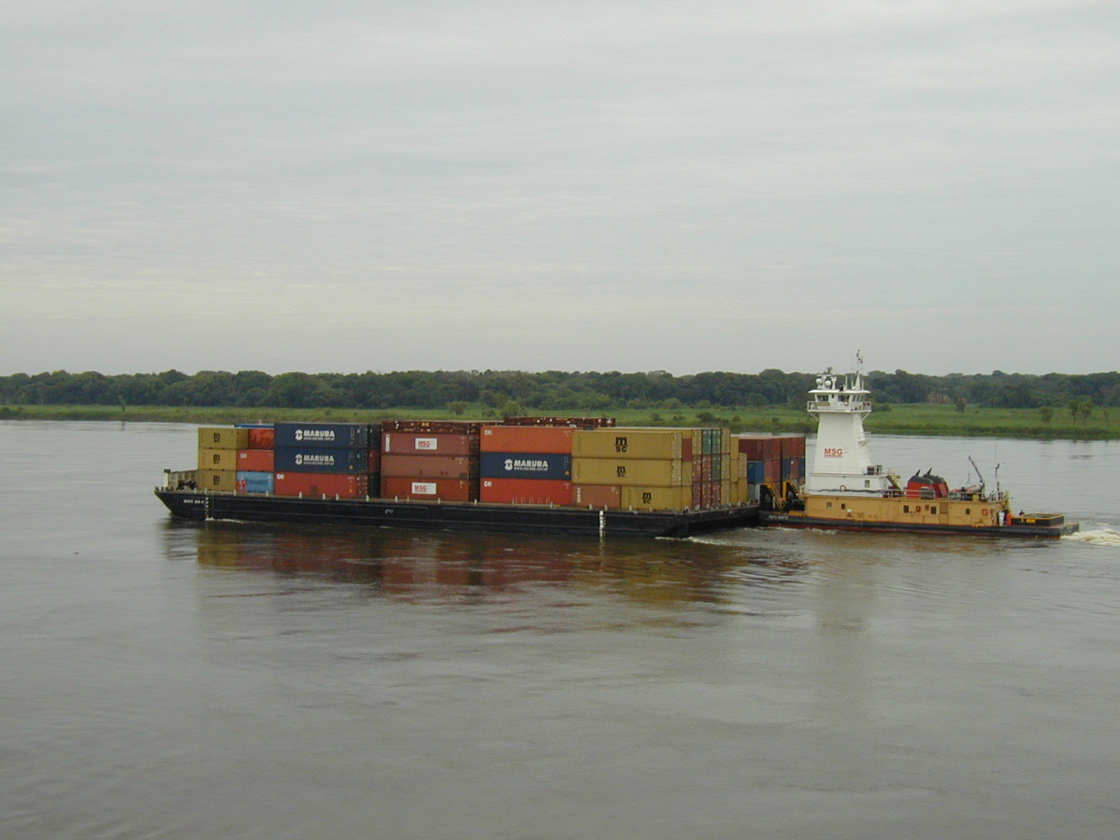 Ocean barge for containers at Paraguay River